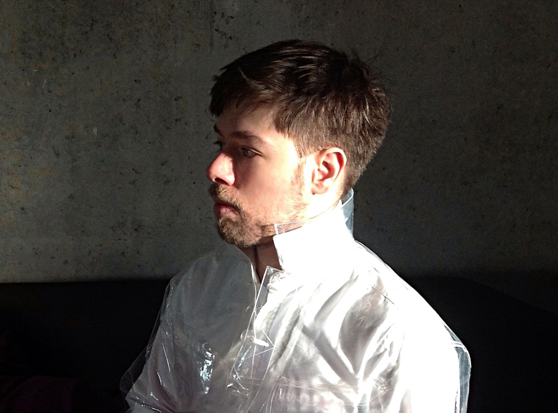 Artist Ivan Civic performing in Berlin